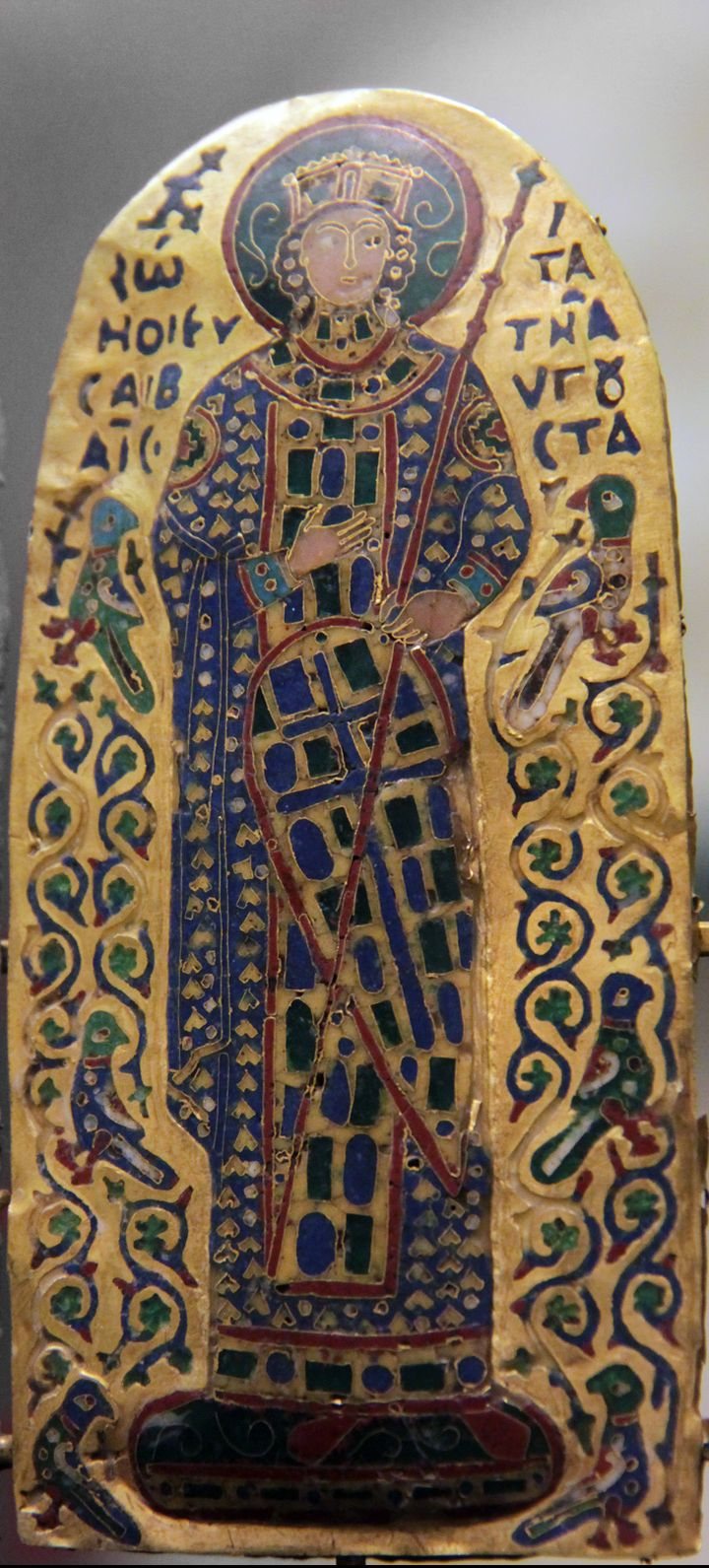 Monomakhoszi-korona (hu. Crown of Mokosh) - hungarian cloisonne enamel plaques crown, probably parts of a crown representing the emperor Constentine IX Monomachos (1042 - 1056), the Empresses Ivone(Zoe)and her sister Theodora.Словѣньскъ / ⰔⰎⰑⰂⰡⰐⰠⰔⰍⰟ: Имионо Мокоши корона (hu. Monomakhoszi-korona) зе Славѧнском текстом. Славѧнске надписы: "ЛВОЙ ІВОНО ІѠНОІЕ ЖІѠНОІ Ѵ СЛАІВА ДІСТІАНА ІСІТАТНА АУГꙊСТА - СЛАІВА З ВІТА ВАІСІ ЛІСІ ТАТИНА И ѦУГО ѦГУОѴ УСТА".